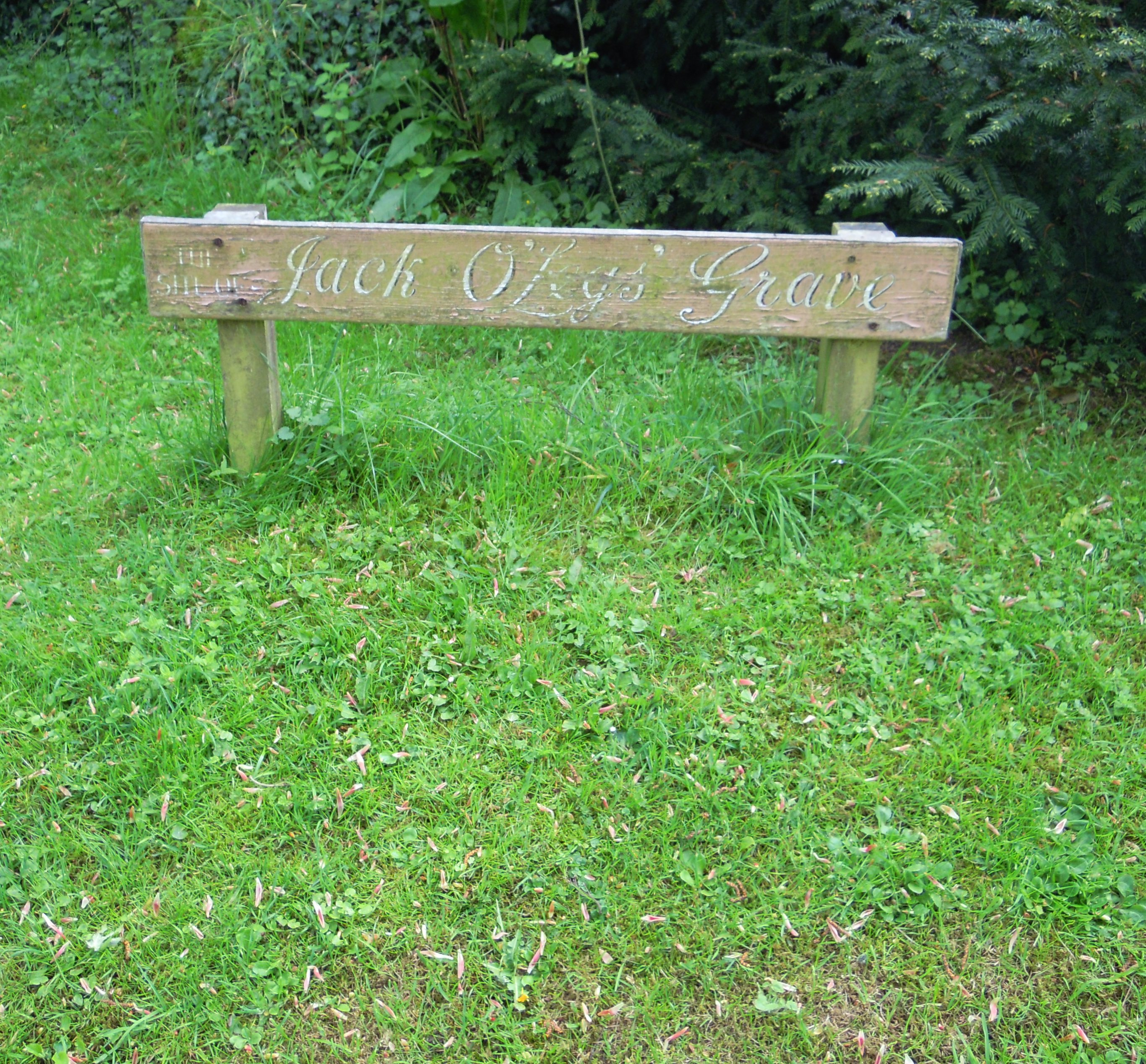 The grave of Jack o'Legs in the churchyard of Holy Trinity Church at Weston